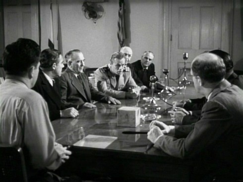 Screen-capture of film: Panic in the Streets (1950).